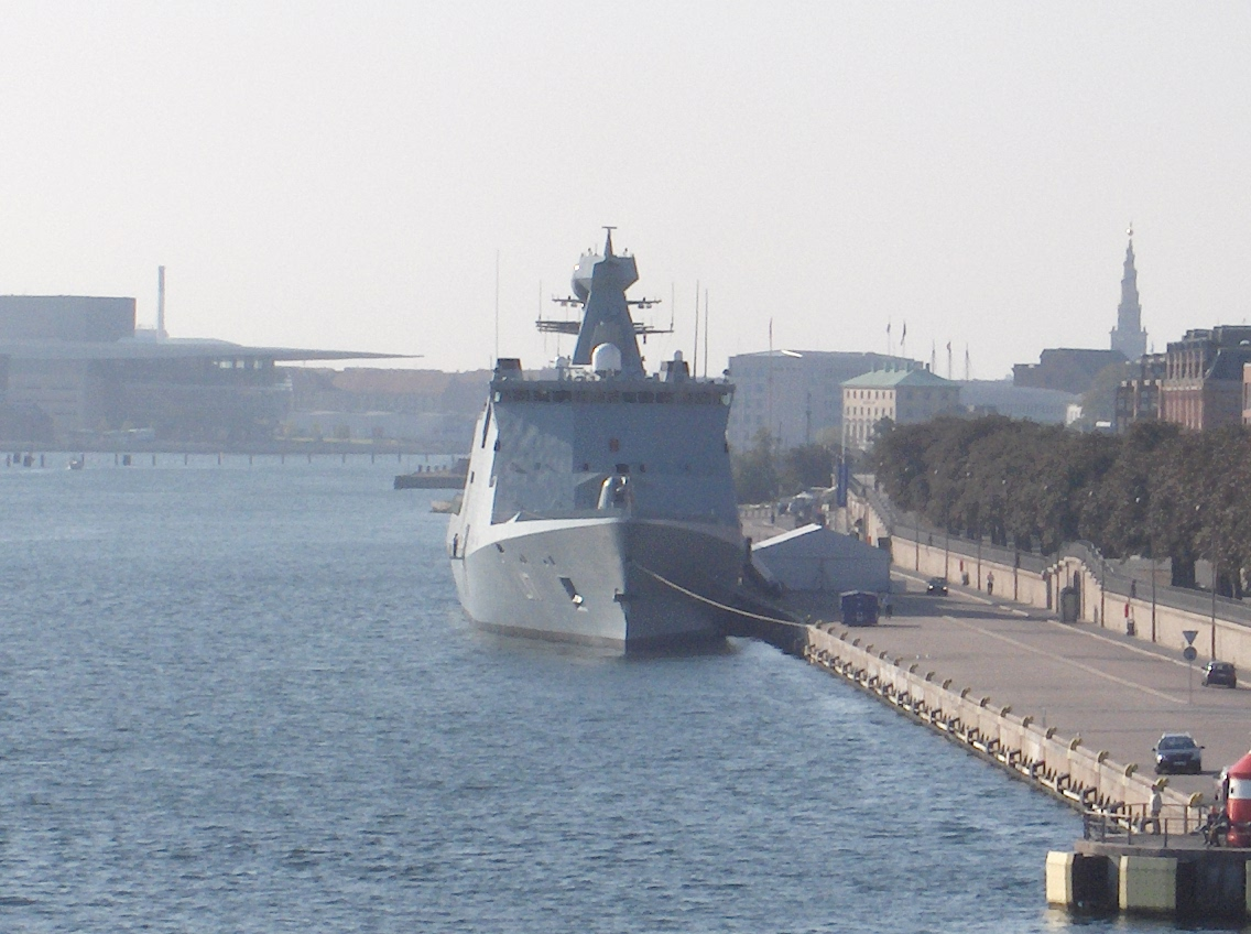 The Photo of L17 @ Copenhagen harbor. Picture taken 21. September 2006 at 10:30 AM by Babak Bandpey